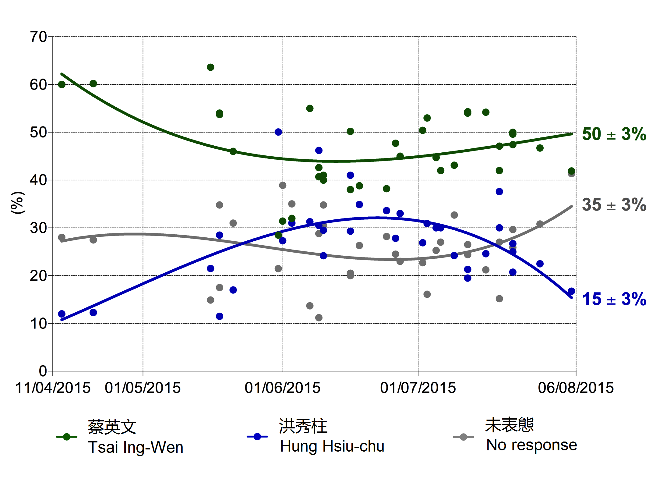 Polling for the 2016 Presidential Election prior to the announcement of a presidential bid by PFP's James Soong. Polynomial regression model used.